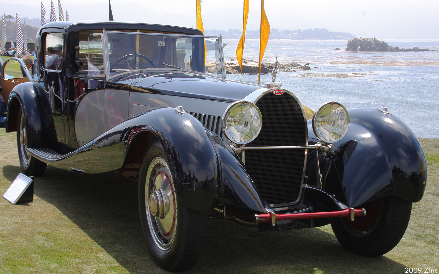 Bugatti Typ 41 "La Royale", Chassis #41-111 (1932), Coupé de Ville coachwork built by Henri Binder 1935 Pebble Beach Concours dElegance, Aug 16, 2009